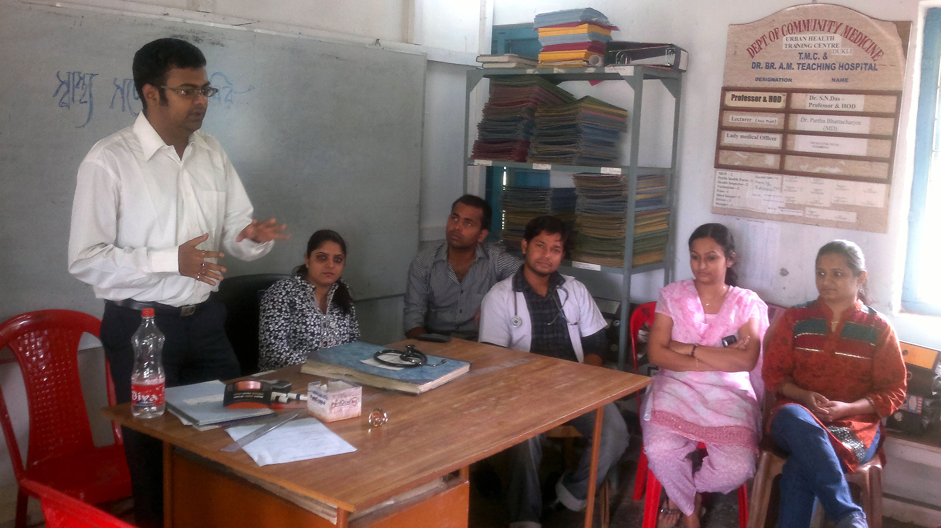 Tripura Medical College & Dr. B.R. Ambedkar Memorial Teaching Hospital (Tripura, Agartala, India) interns imparting health education to rural people